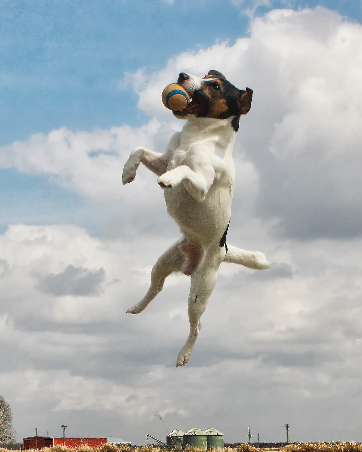 A Jack Russell Terrier catching a ball mid-air